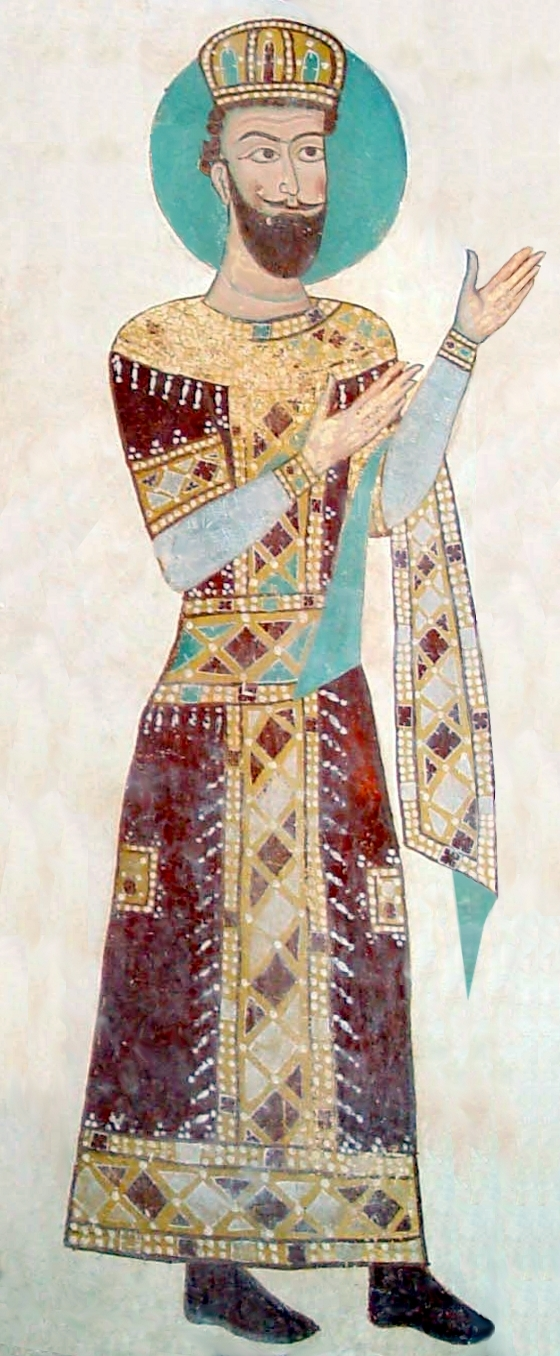 Alexander II of Imereti - colorized image, based on this.